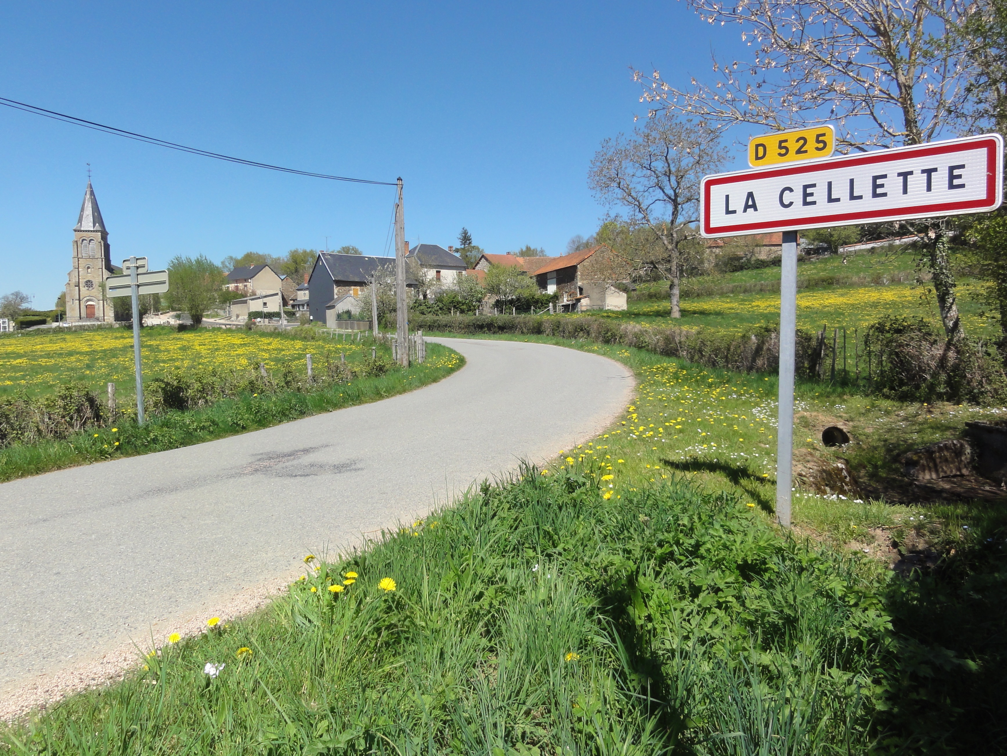 La Cellette (Puy-de-Dôme) village et panneau d'entrée